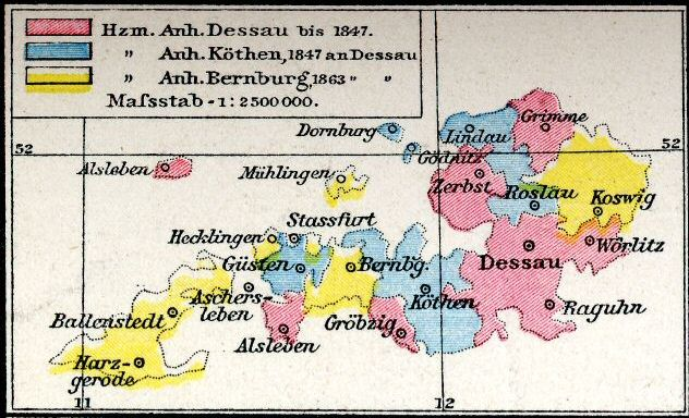 Map of Anhalt, 1847-1918